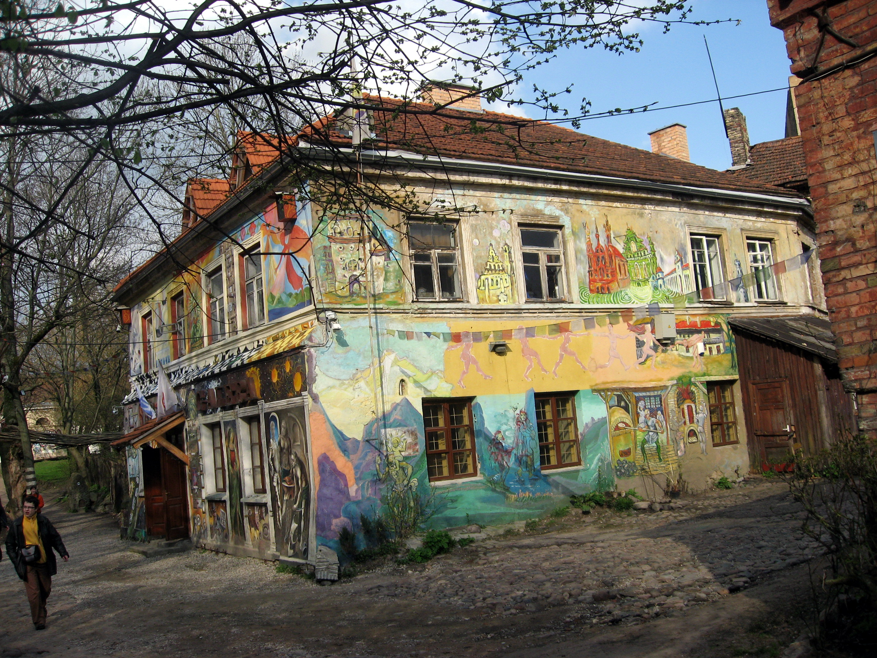 Uzhupis art incubator (Užupio str. 2)